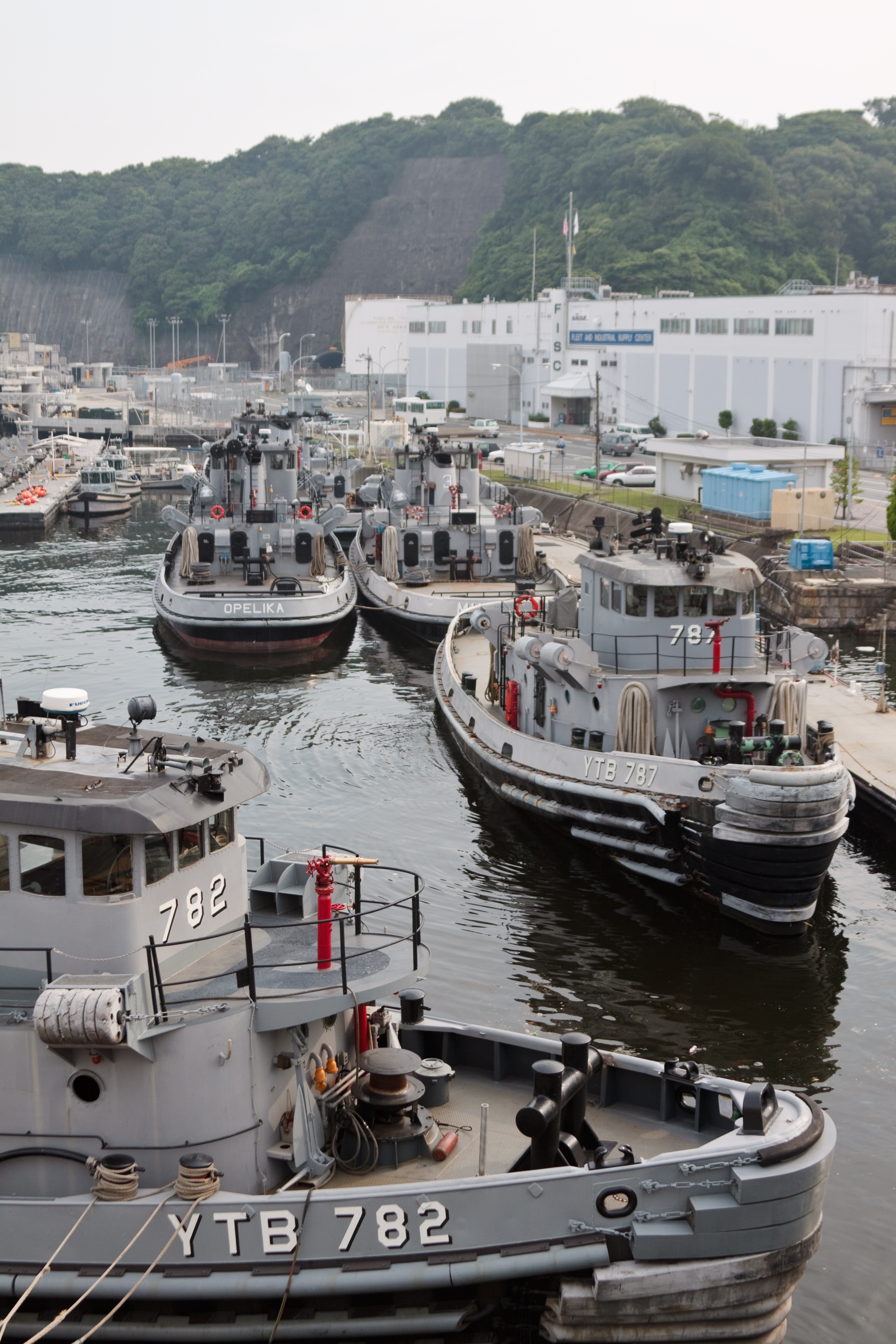 The five fleet tugs that comprise the Fleet Activities Yokosuka fleet - Kittanning, Manistee, Massapequa, Muskegon, and Opelika - are among the last operated by US Navy Sailors.